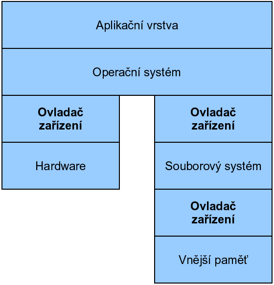 Example of level device driver in architecture of operating system with Czech description.